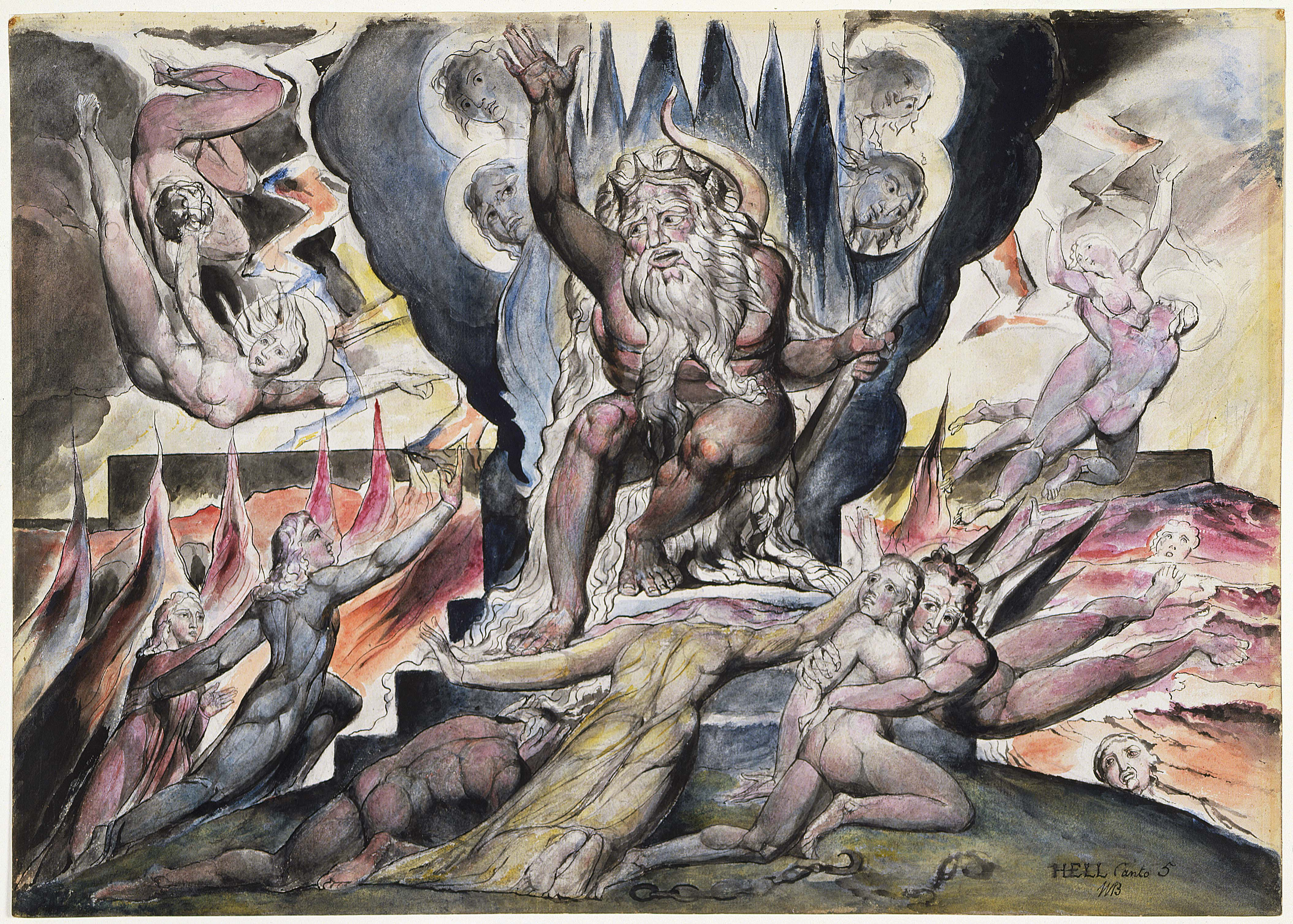 Minos, ca. 1824-7. As part of Illustrations to Dante's "Divine Comedy", object 9 (Butlin 812.9) "Minos"